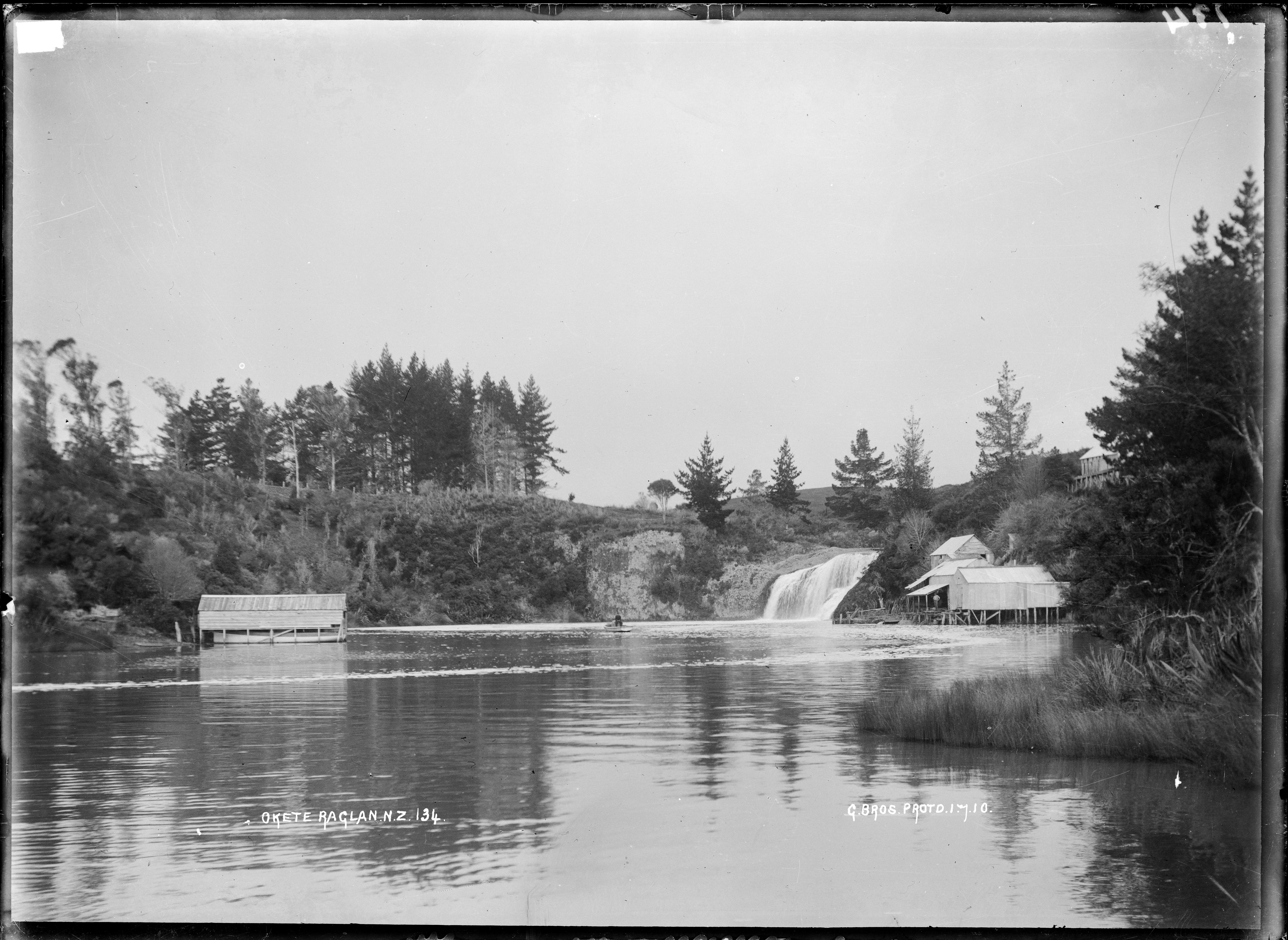 Okete Creek and Falls, 1910, photographed by Gilmour Brothers. Wallis's Flax Mill is visible centre right, below the Okete Falls. Inscriptions: Inscribed - Photographer's title on negative -bottom right: G Bros Protd 1.7.10bottom left: Okete Raglan NZ 134. Quantity: 1 b&w original negative(s). Physical Description: Dry plate glass negative 6.5 x 4.75 inches Gilmour Brothers (Firm). Okete Creek and Falls - Photograph taken by Gilmour Brothers. Price, William Archer, 1866-1948 :Collection of post card negatives. Ref: 1/2-001015-G. Alexander Turnbull Library, Wellington, New Zealand.